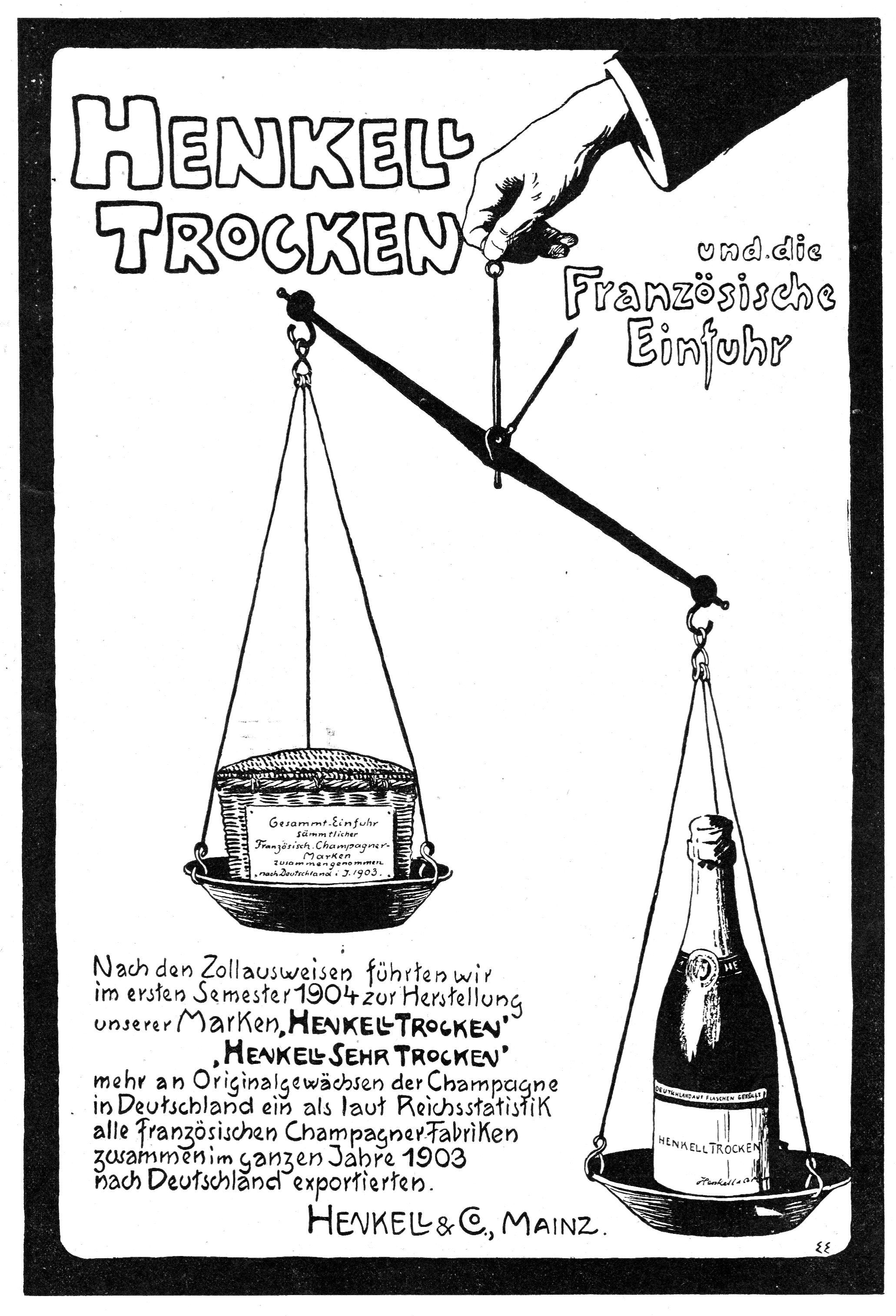 Advertisement of Henkell